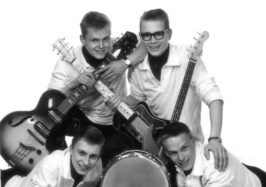 Photograph of the Finnish rock band The Savages: Ole Halén, Hans von Hertzen, Kurt Wenner, and Martin Brushane.